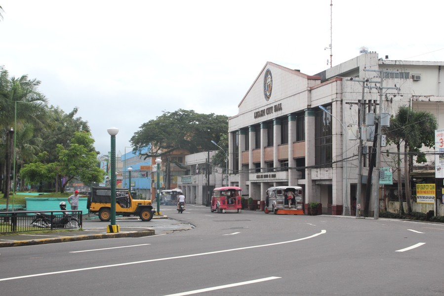 Legazpi City Hall